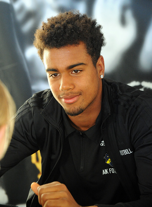 Noah Sonko Sundberg